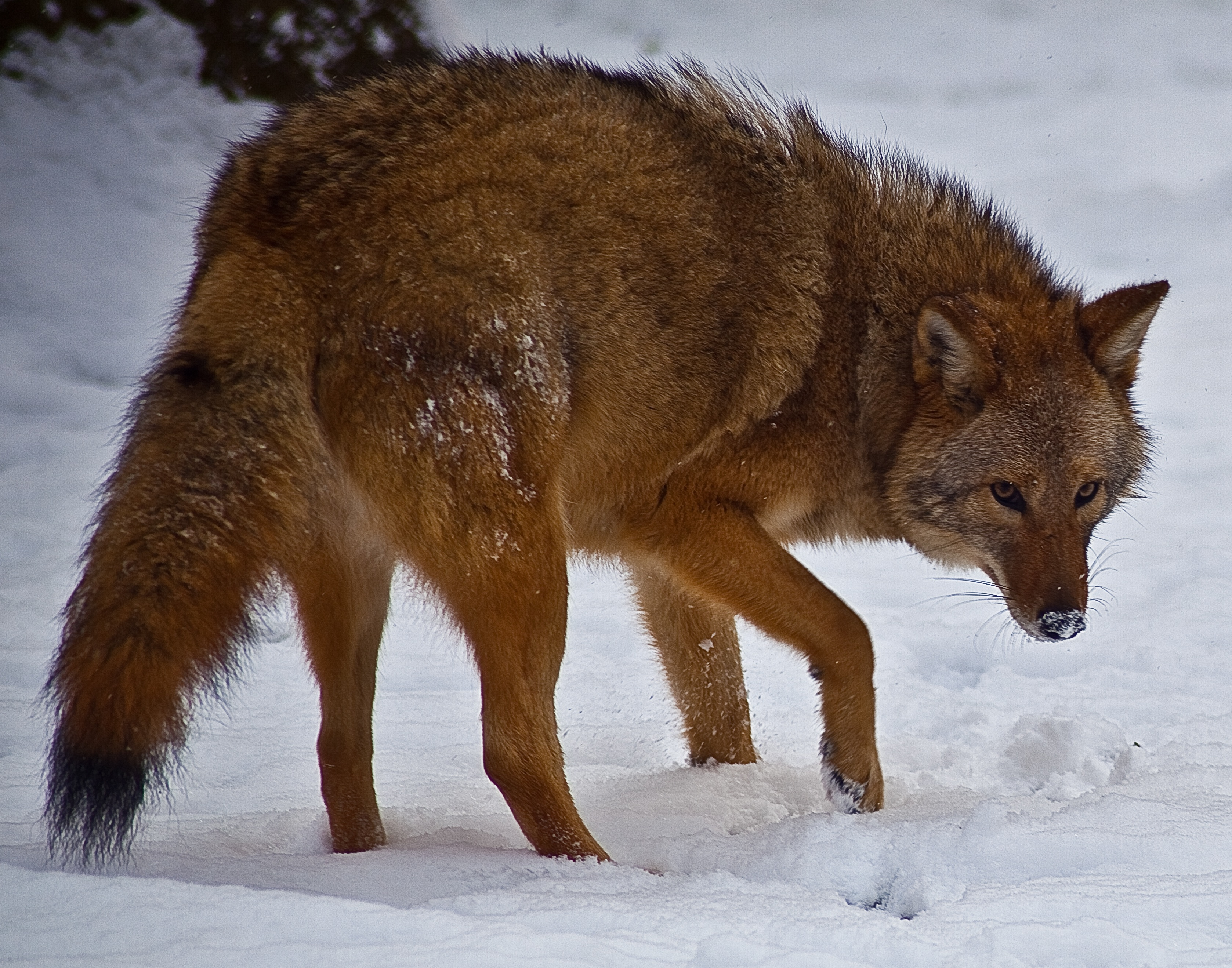 Coyote Face Snow